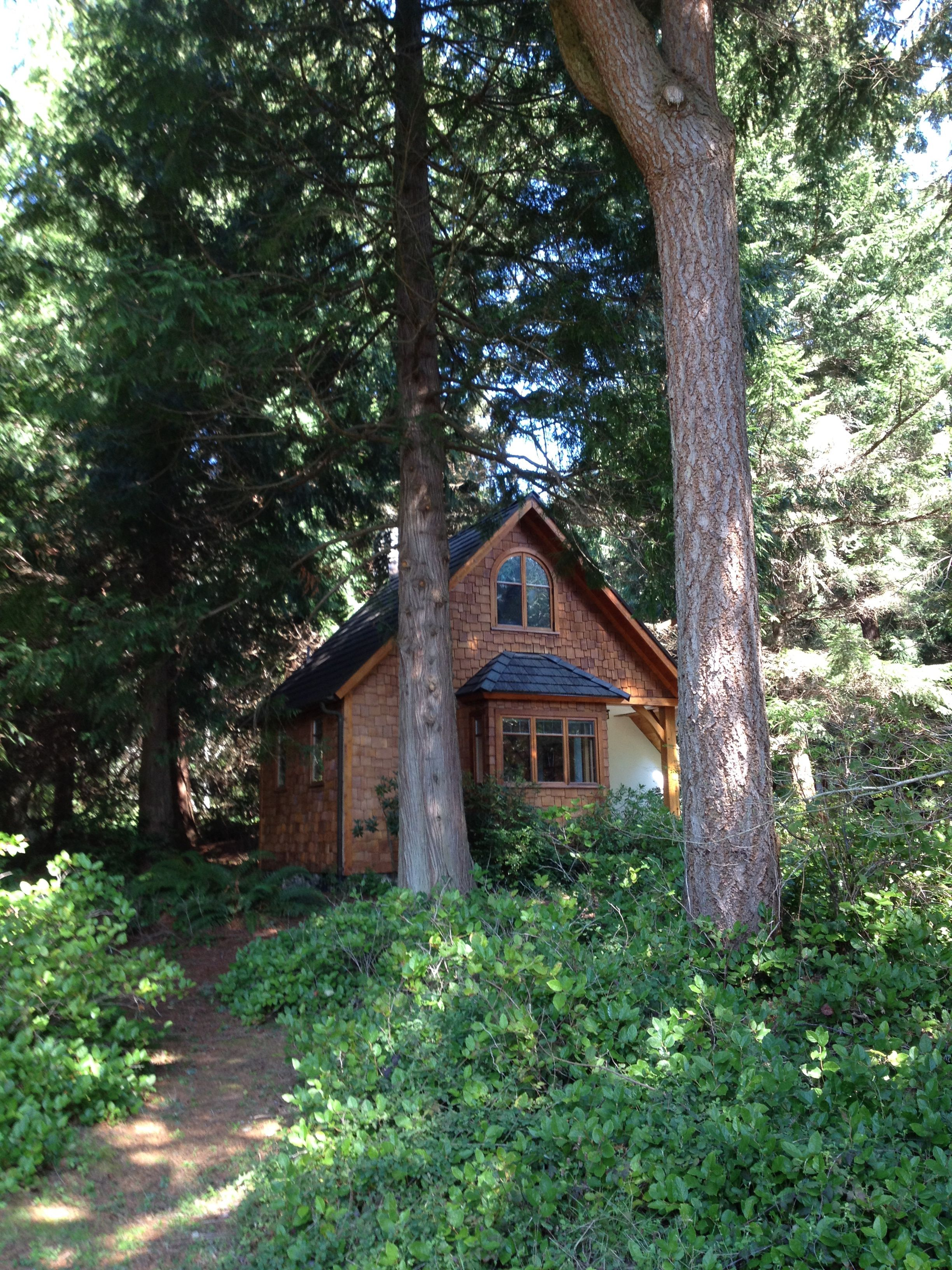 Artist's individual cottage at the Hedgebrook Artist Colony on Whidbey Island, Washington.